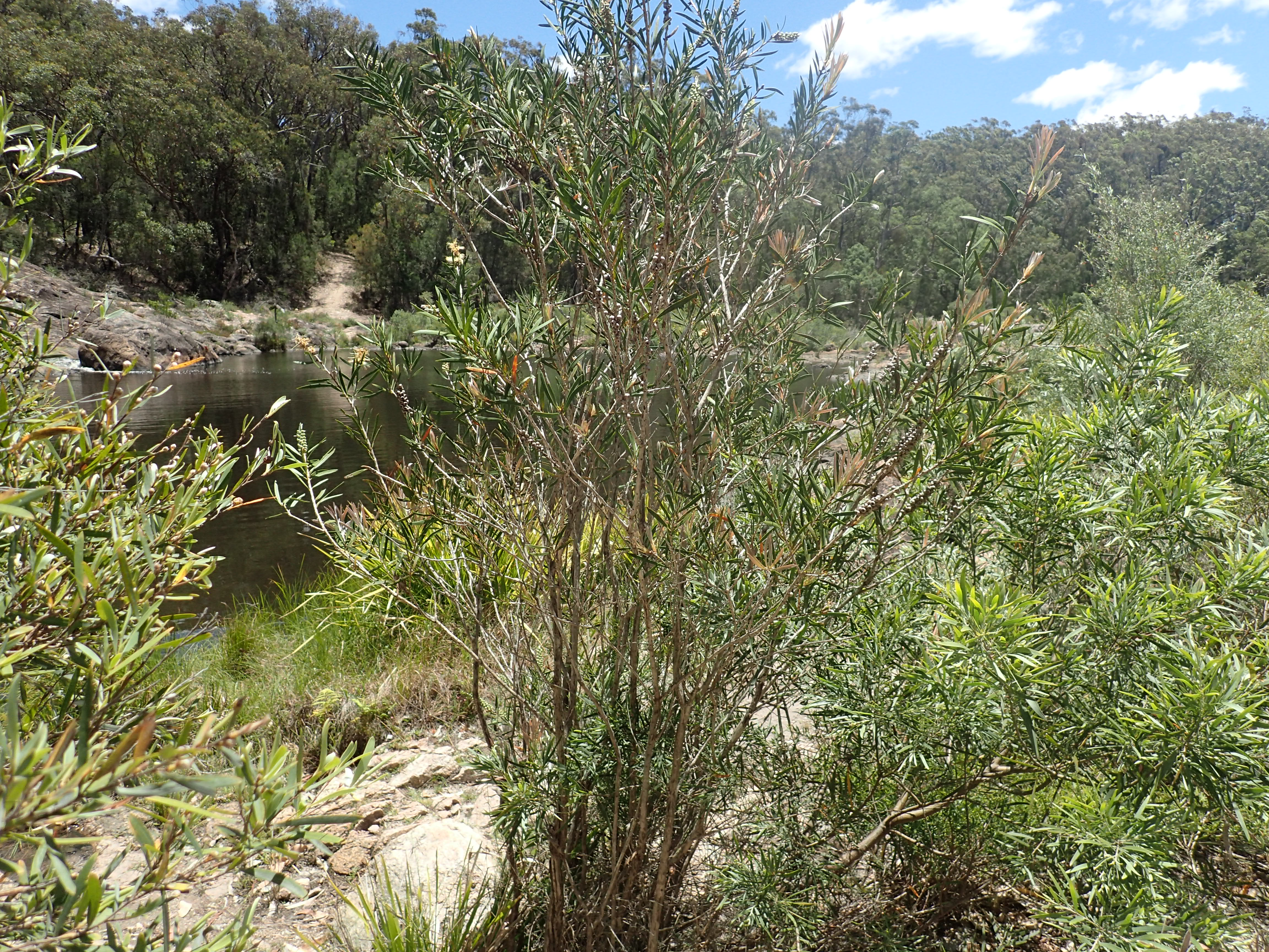 Melaleuca flavovirens growing near the Boonoo Boonoo Falls in the Boonoo Boonoo National Park